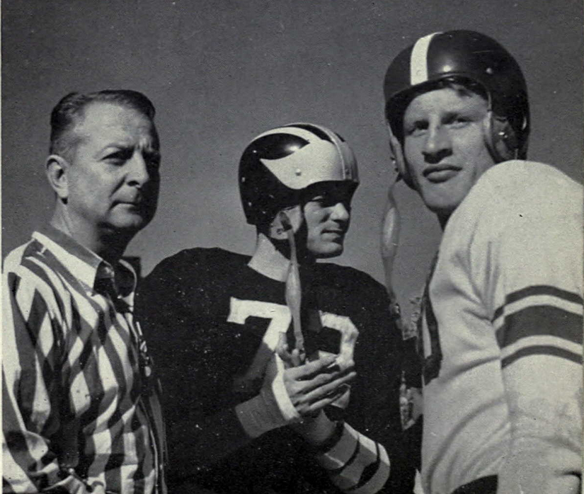 Photograph of Michigan and Northwestern football captains Al Wahl and Don Stonesifer prior to 1950 football game This work is in the public domain because it was published in the United States between 1925 and 1963 and although there may or may not have been a copyright notice, the copyright was not renewed. Unless its author has been dead for the required period, it is copyrighted in the countries or areas that do not apply the rule of the shorter term for US works, such as Canada (50 pma), Mainland China (50 pma, not Hong Kong or Macao), Germany (70 pma), Mexico (100 pma), Switzerland (70 pma), and other countries with individual treaties. See Commons:Hirtle chart for further explanation. This work is in the public domain in the United States because it was published in the United States between 1925 and 1977 without a copyright notice. See Commons:Hirtle chart for further explanation. Note that it may still be copyrighted in jurisdictions that do not apply the rule of the shorter term for US works (depending on the date of the author's death), such as Canada (50 p.m.a.), Mainland China (50 p.m.a., not Hong Kong or Macao), Germany (70 p.m.a.), Mexico (100 p.m.a.), Switzerland (70 p.m.a.), and other countries with individual treaties.